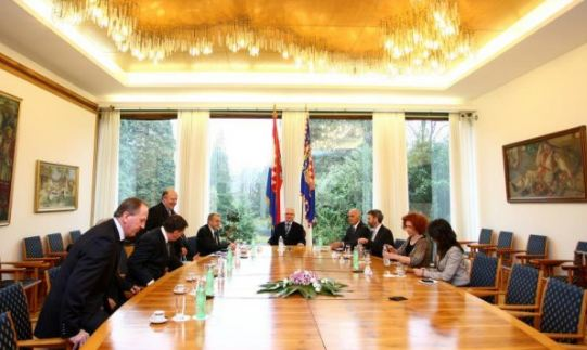 Presidential palace, Zagreb. Conference room.